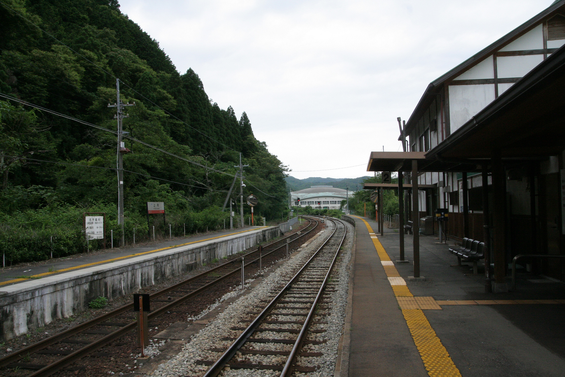 West Japan Railway Kishin Line Kozuki Station enclosure